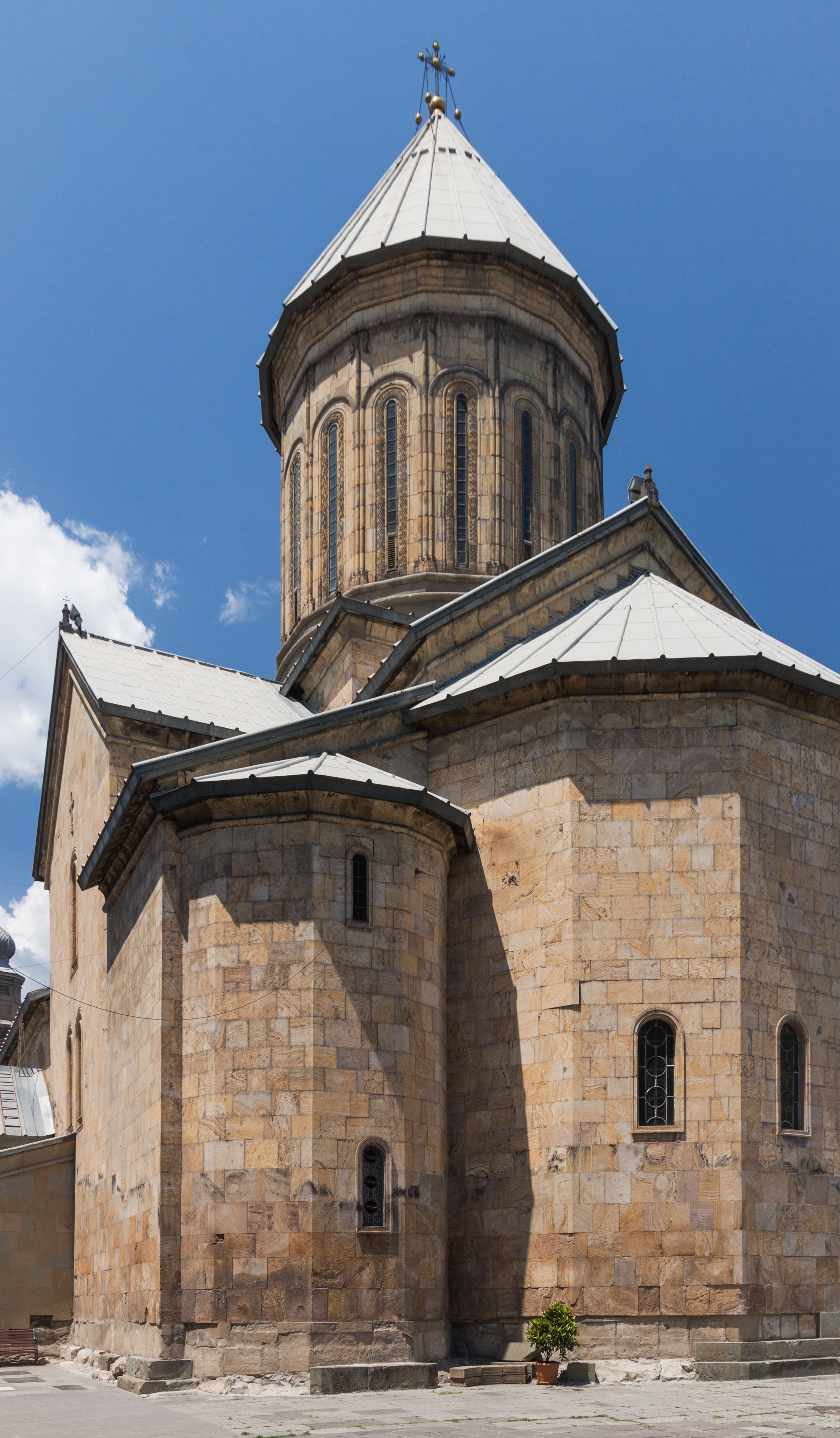 Sioni Cathedral. Tbilisi, Georgia.